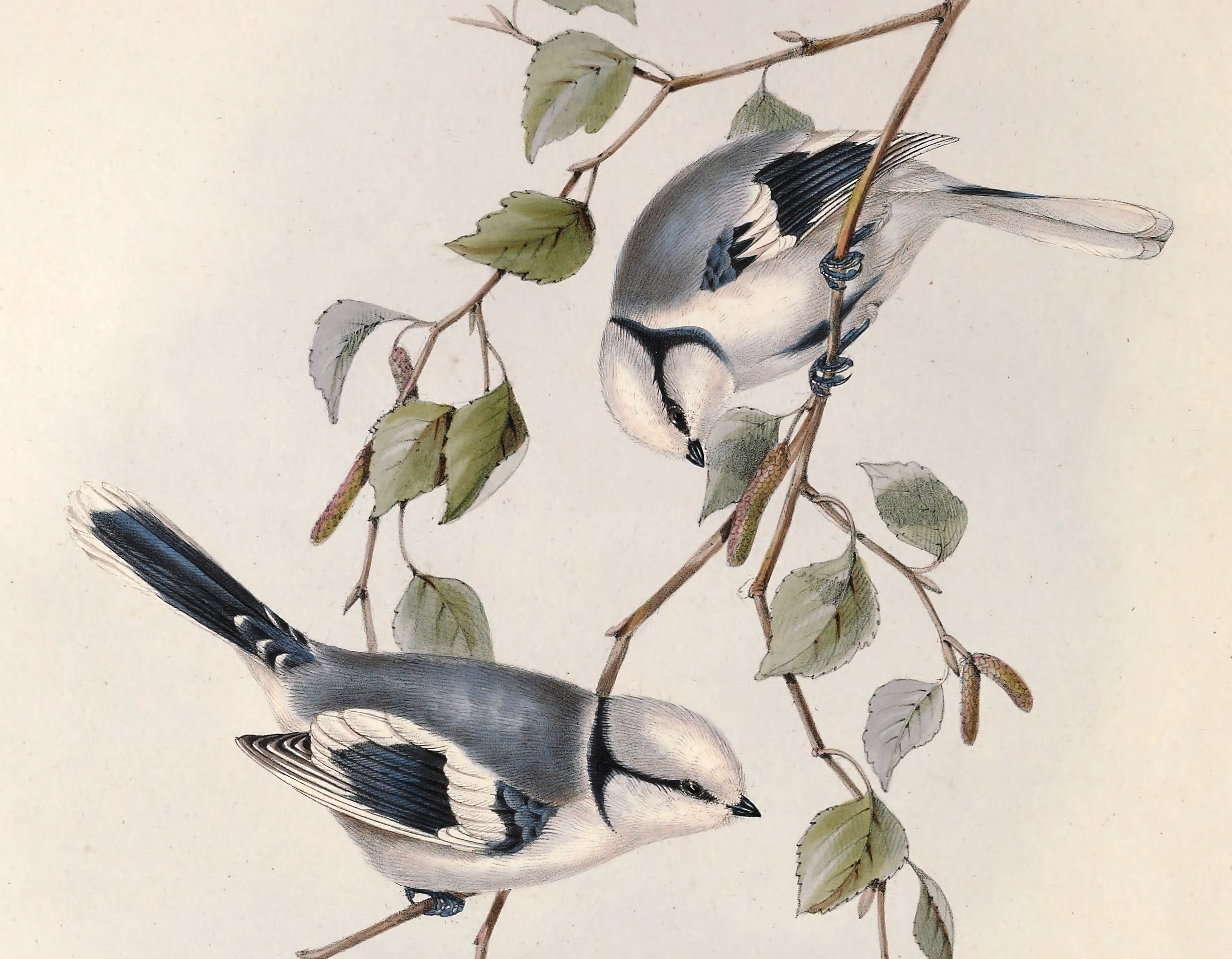 Parus cyanus. John Gould